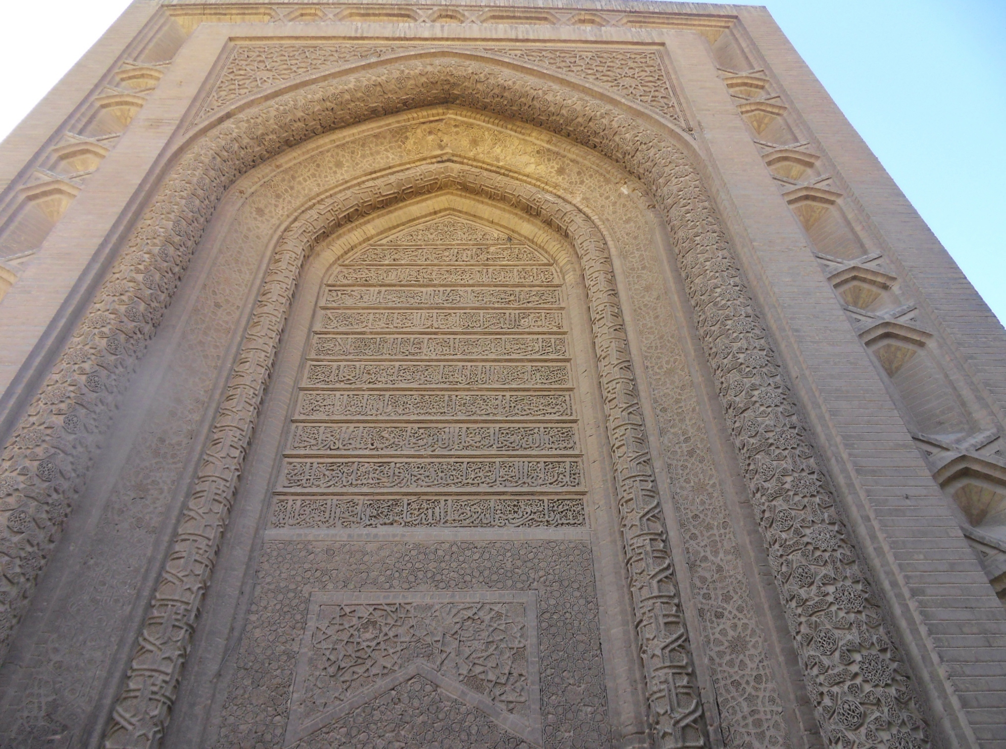 The old Munstansiriya Madrasah in Baghdad